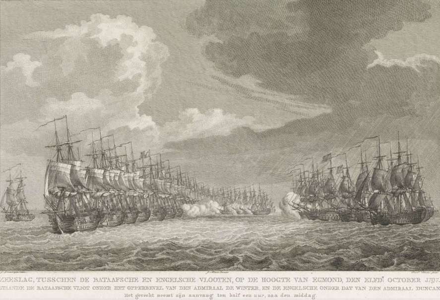 The Battle of Camperdown, on 11 oktober 1797. The Batavian navy is on the left, with the Gelijkheid (capt. Ruisch) in the front, and the Beschermer (capt. Hinxt) just behind it. The British fleet on the right, with HMS Lancaster (capt. John Wells) in the front.